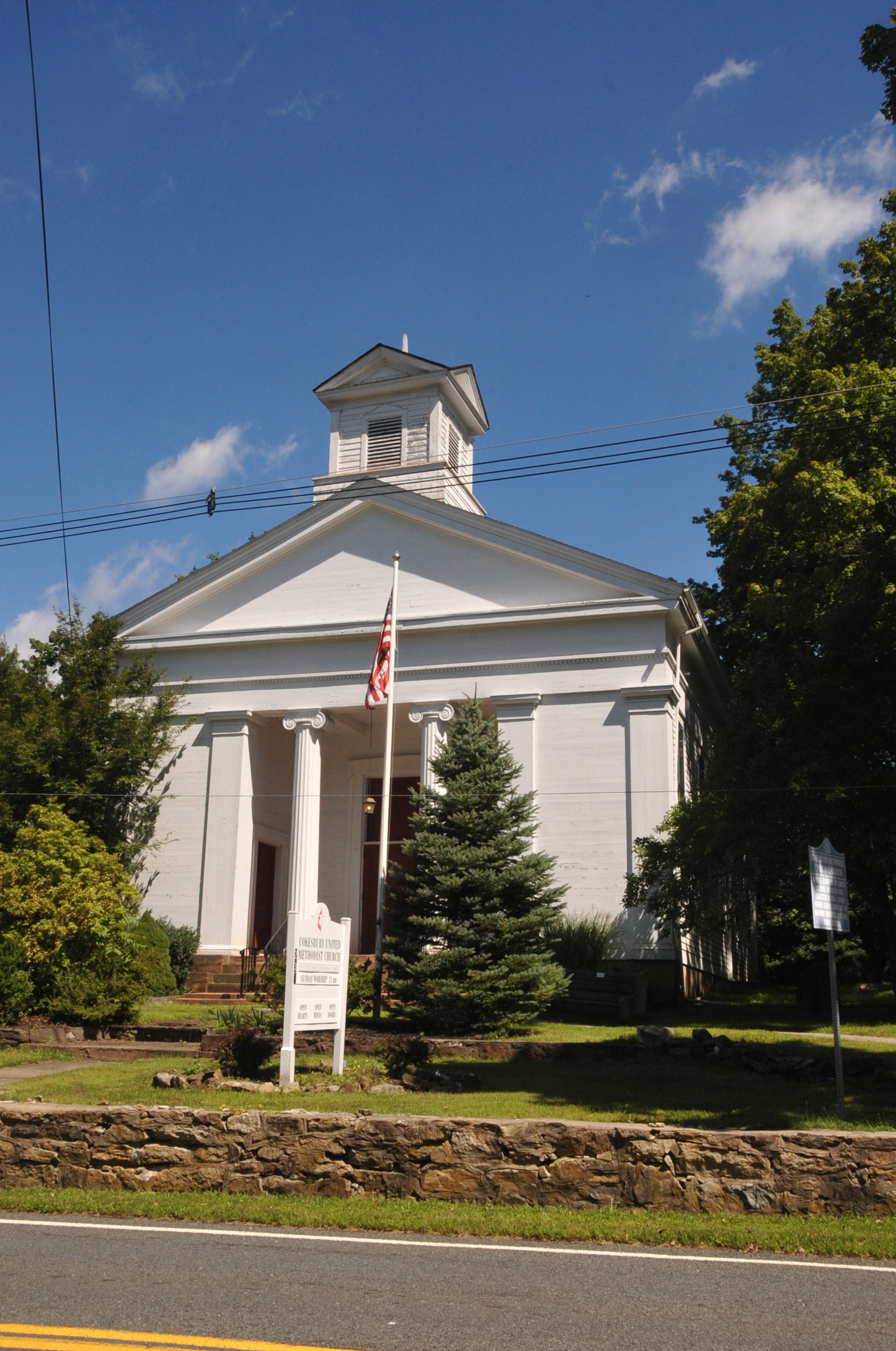 VIEW OF THE GREEK REVIVAL CHURCH LOCATED ON COKESBURY-CALIFORN ROAD